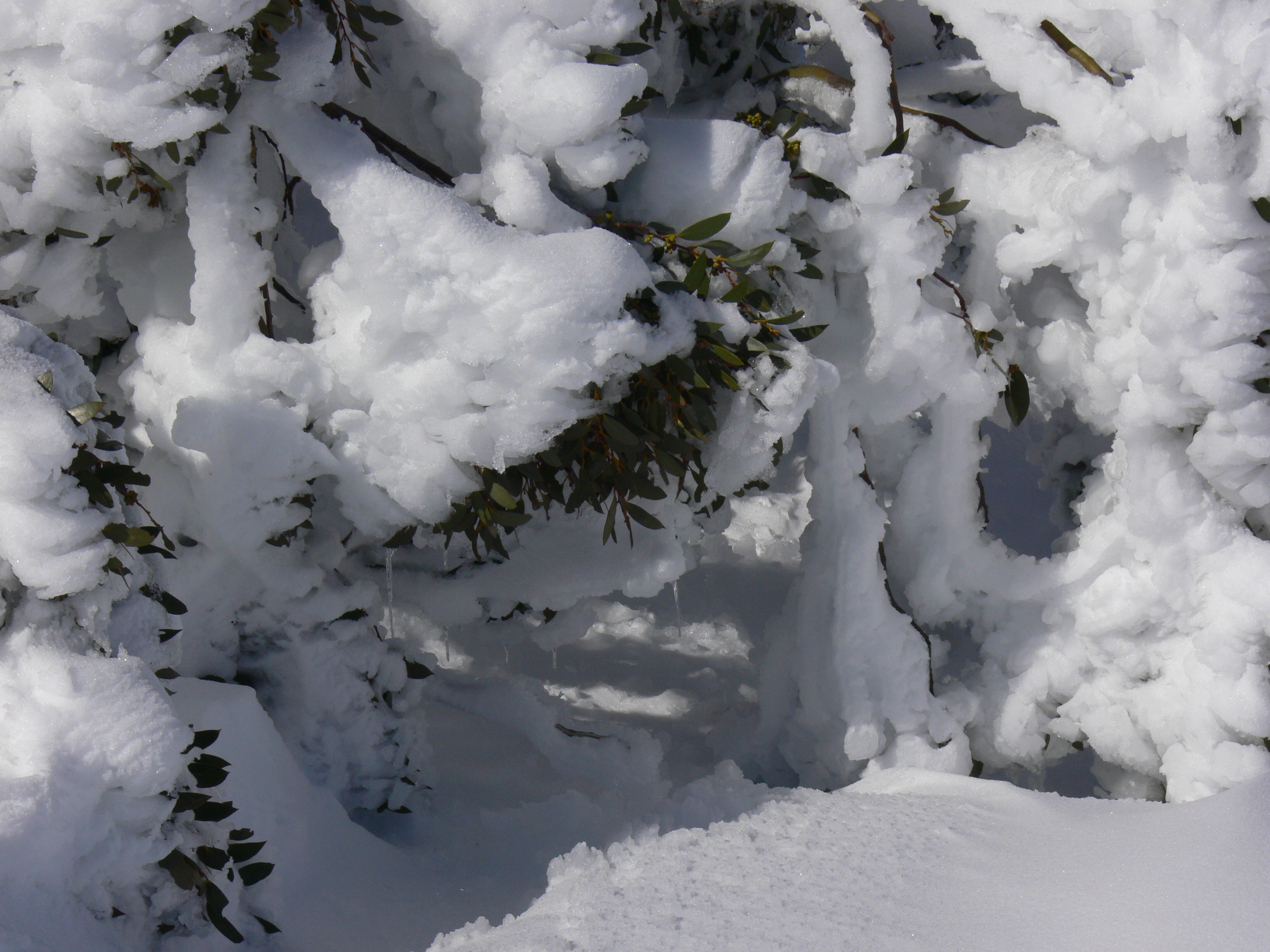 Snow Gum (Eucalyptus pauciflora), Australian Alps, showing how snow is lost from the leaves as the branches bend with the weight of the snow